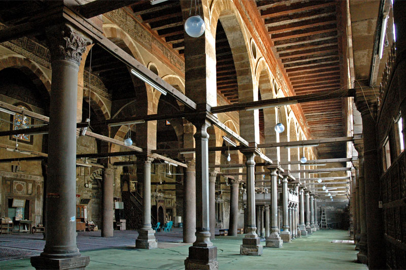 Mosque of al-Maridani. Cairo, Egypt